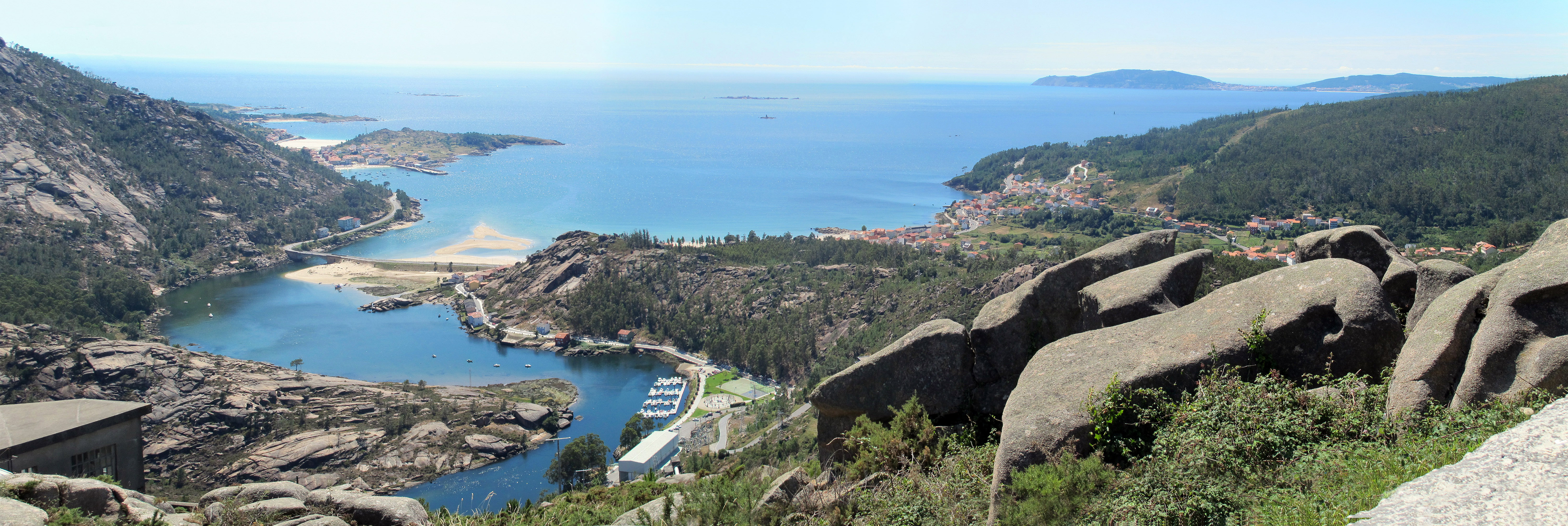 View of Ezaro